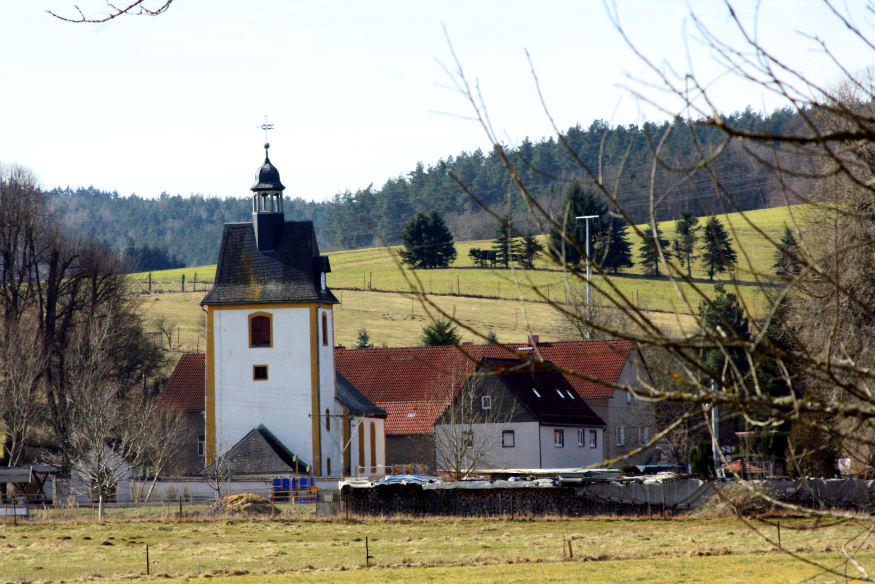 Church in Zedlitz-Sirbis near Gera/Thuringia